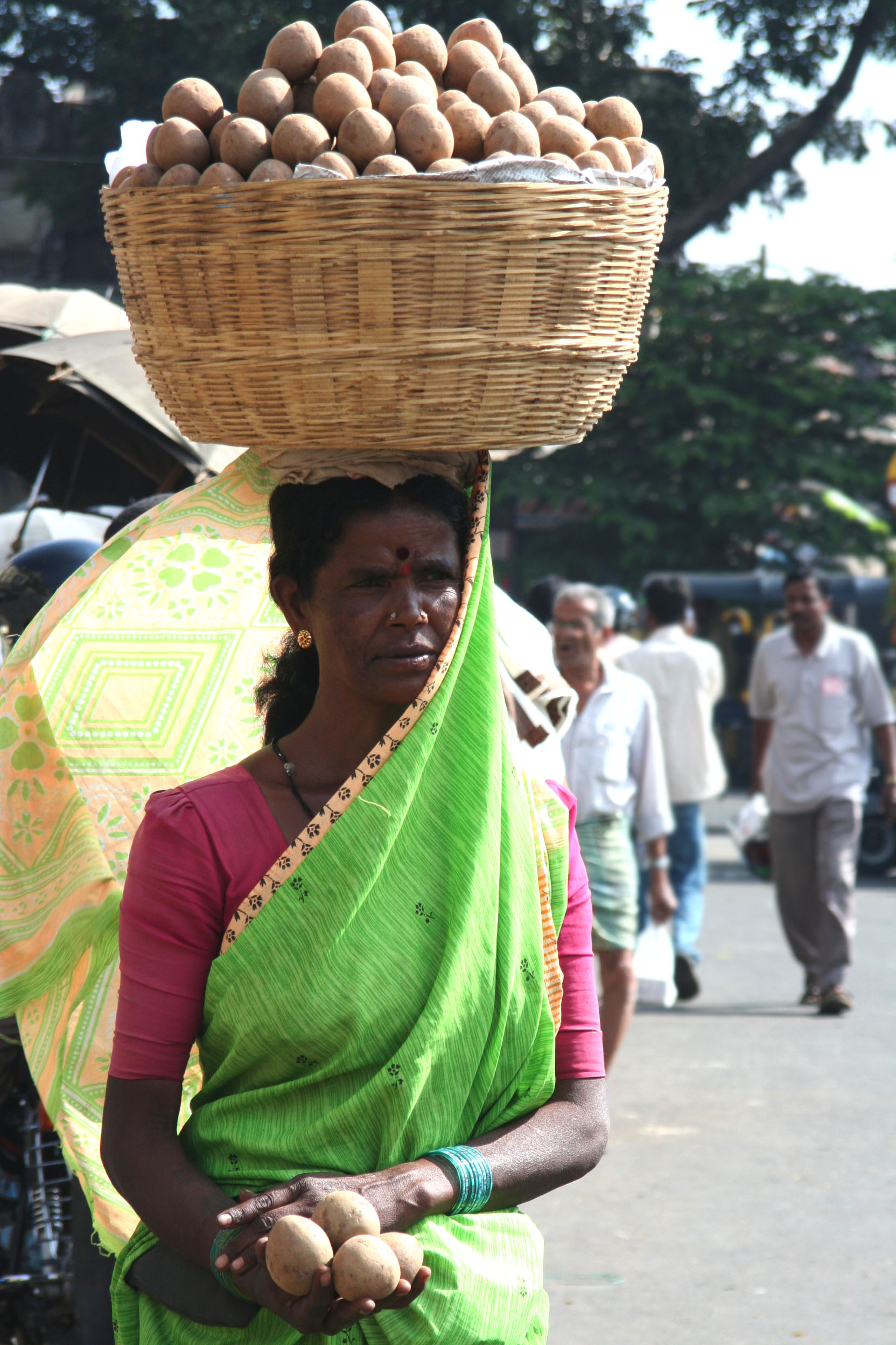 Sari-clad woman in Mysore balancing a basket of chikku (or sapota; a type of fruit) on her head. Photography by the NGO medapt Original title: Incredible balanceIncredible balance